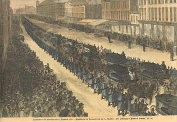 Theater fire in Brooklyn on 5 December 1876 --Funeral procession of the victims on December 9. The cortege on Flatbush Avenue.